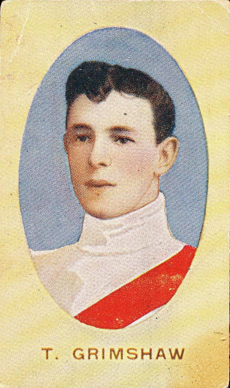 Cigarette card of Tom Grimshaw from the Sniders & Abrahams 1910 series